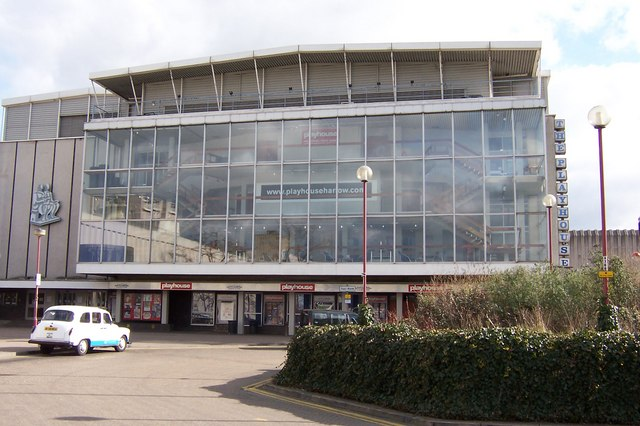 The Playhouse, Harlow. The Playhouse, Harlow was open in November 1971 and provides a wide and varied range of entertainment for theatre goers.